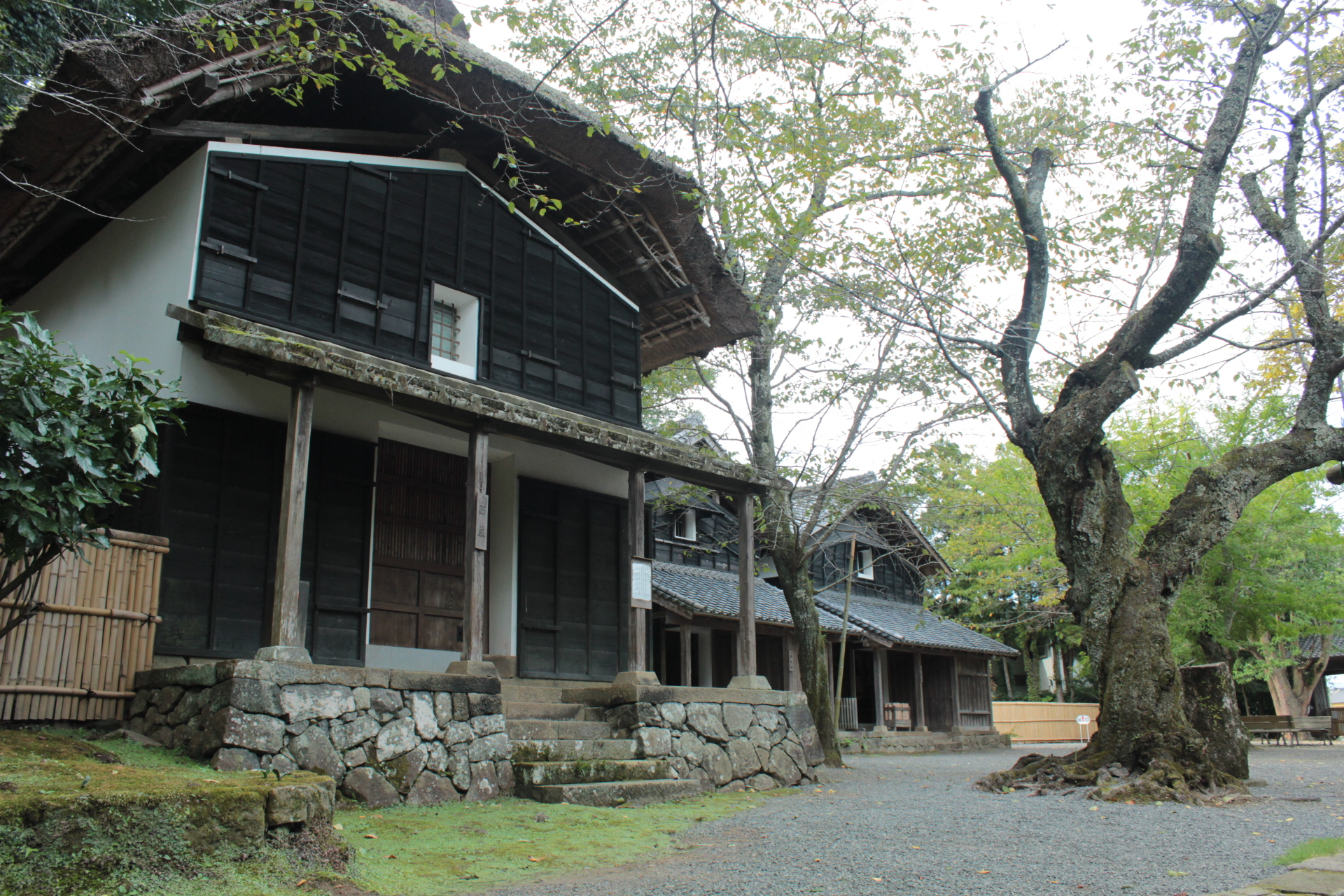 West warehouse of Egawa residence in Izunokuni, Shizuoka Prefecture, Japan.